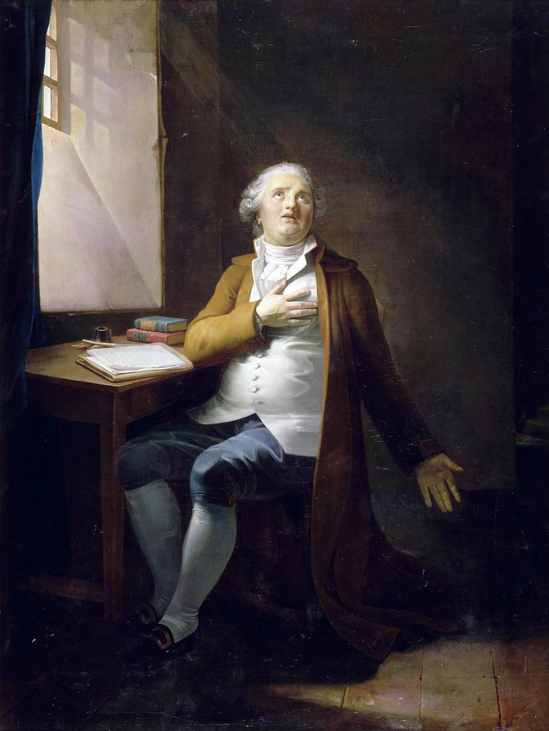 Louis XVI in the Temple, by Henri-Pierre Danloux